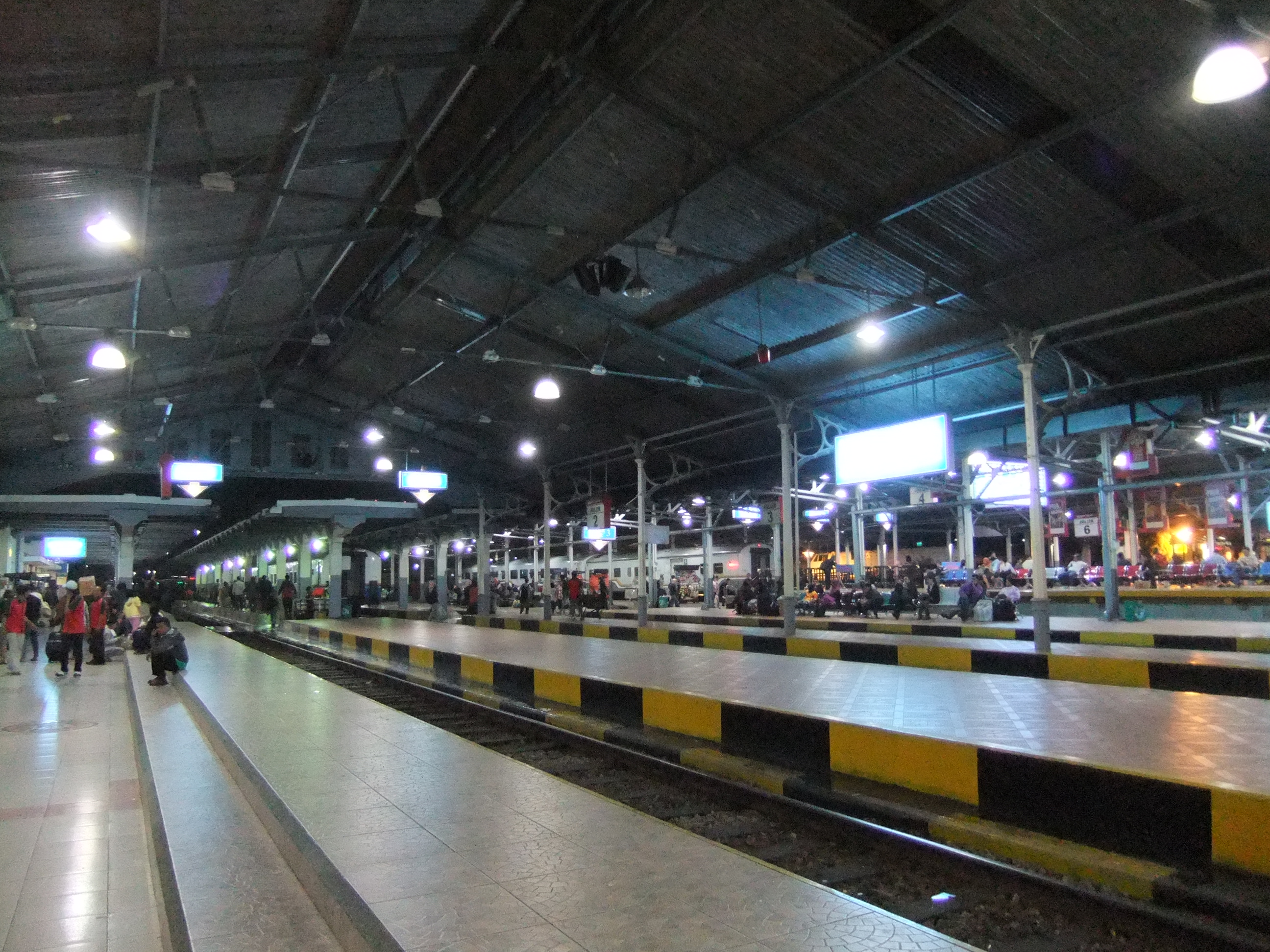 Bandung Station platform